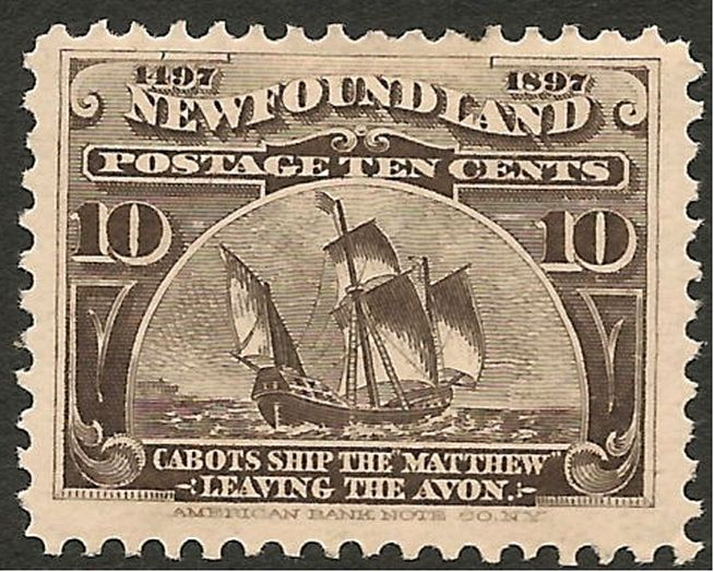 Newfoundland Postage stamp, 1897 issue